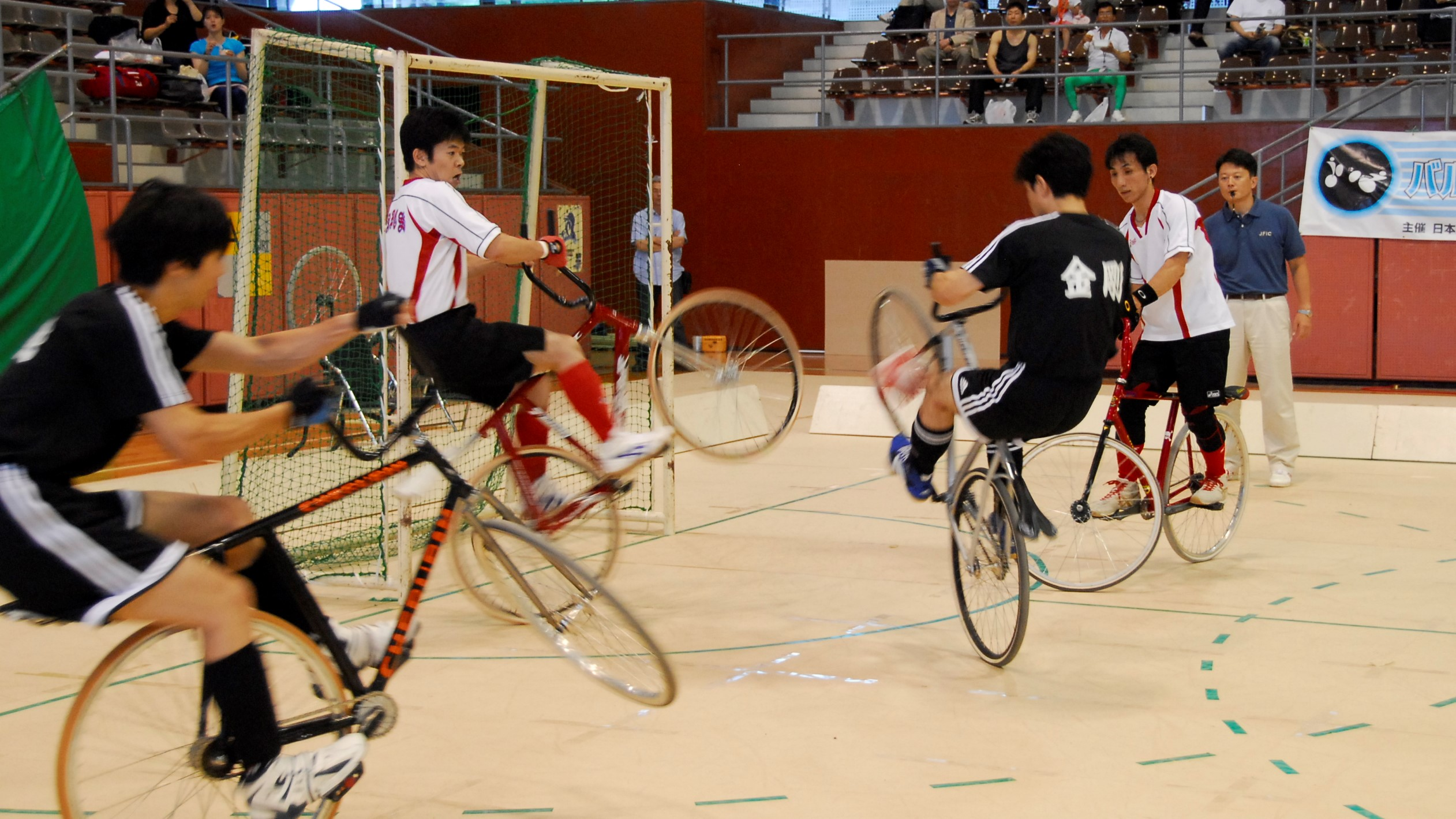 Corner kick of cycle-ball